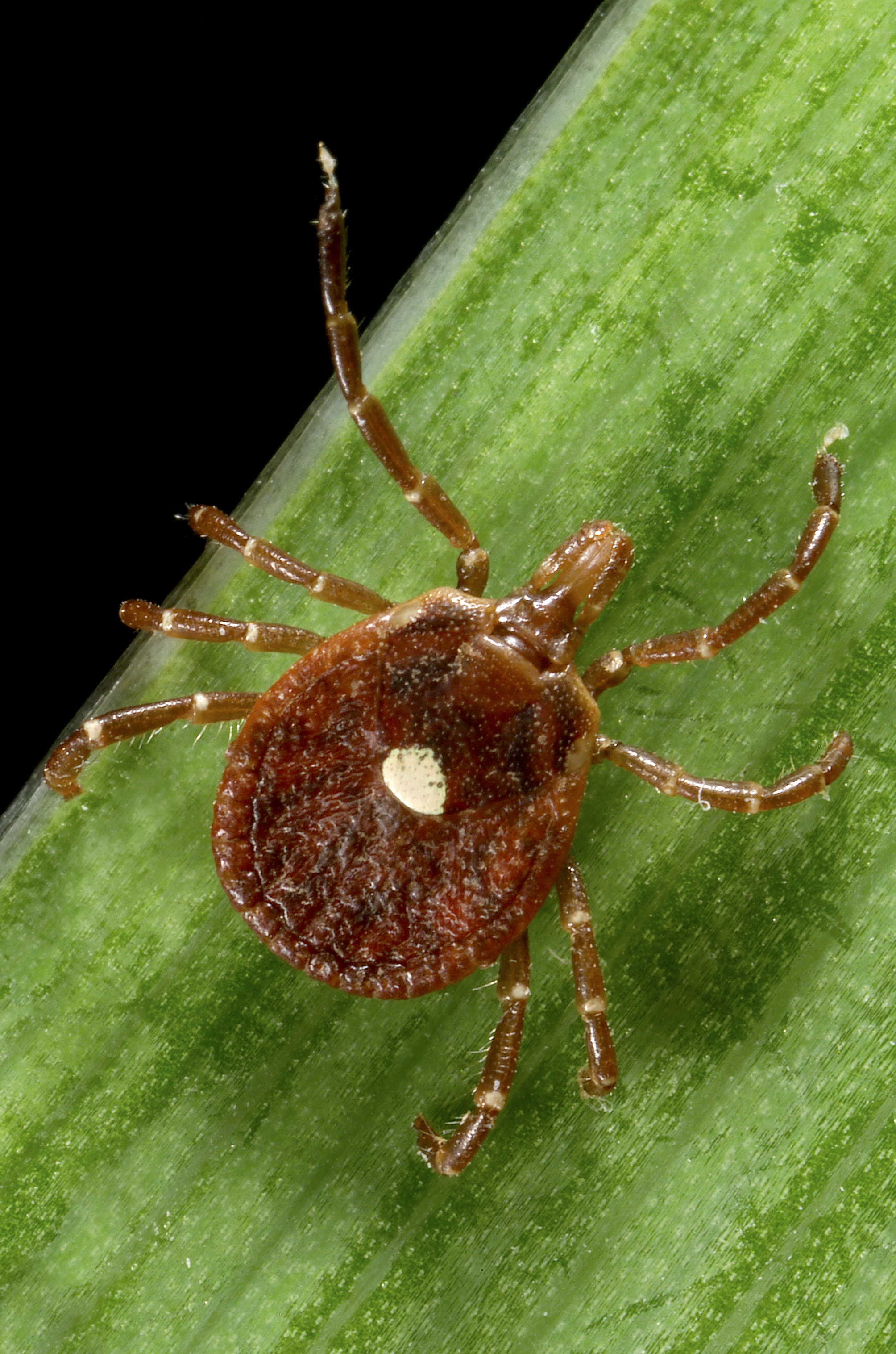 This photograph depicts a dorsal view of a female “lone star tick”, Amblyomma americanum. An ixodid or “hard” tick, A. americanum is found through the eastern and south-central states and can transmit disease agents that affect humans, dogs, goats, and white-tailed deer. Representatives from all three of its life stages aggressively bite people in the southern U.S. Lone star ticks transmit Ehrlichia chaffeensis and Ehrlichia ewingii, both of which cause disease. Borrelia lonestari, a pathogen associated with “Southern tick-associated associated rash illness” (STARI), also infects lone star ticks. Research suggests that up to 10% of the lone star ticks in an endemic area can be infected with any one of these pathogens. These ticks also are infected with a spotted-fever group Rickettsia, “Rickettsia amblyommii” but it is unknown at this time if this bacterium causes disease. The obvious white dot, or “lone star”, identified this as an adult female of the species. The reduced scutal size enables the abdomen to expand to enormous proportions when ingesting a blood meal the tick extracts from its host food source, as seen in PHIL# 8677. In the male, the scutum covers almost the entire dorsal abdomen. Also, note the four pairs of jointed legs, placing ticks in the Phylum Arthropoda, and the Class Arachnida. To view additional images related to this tick specie, see PHIL 4407, and 8677 through 8685, and 9535.